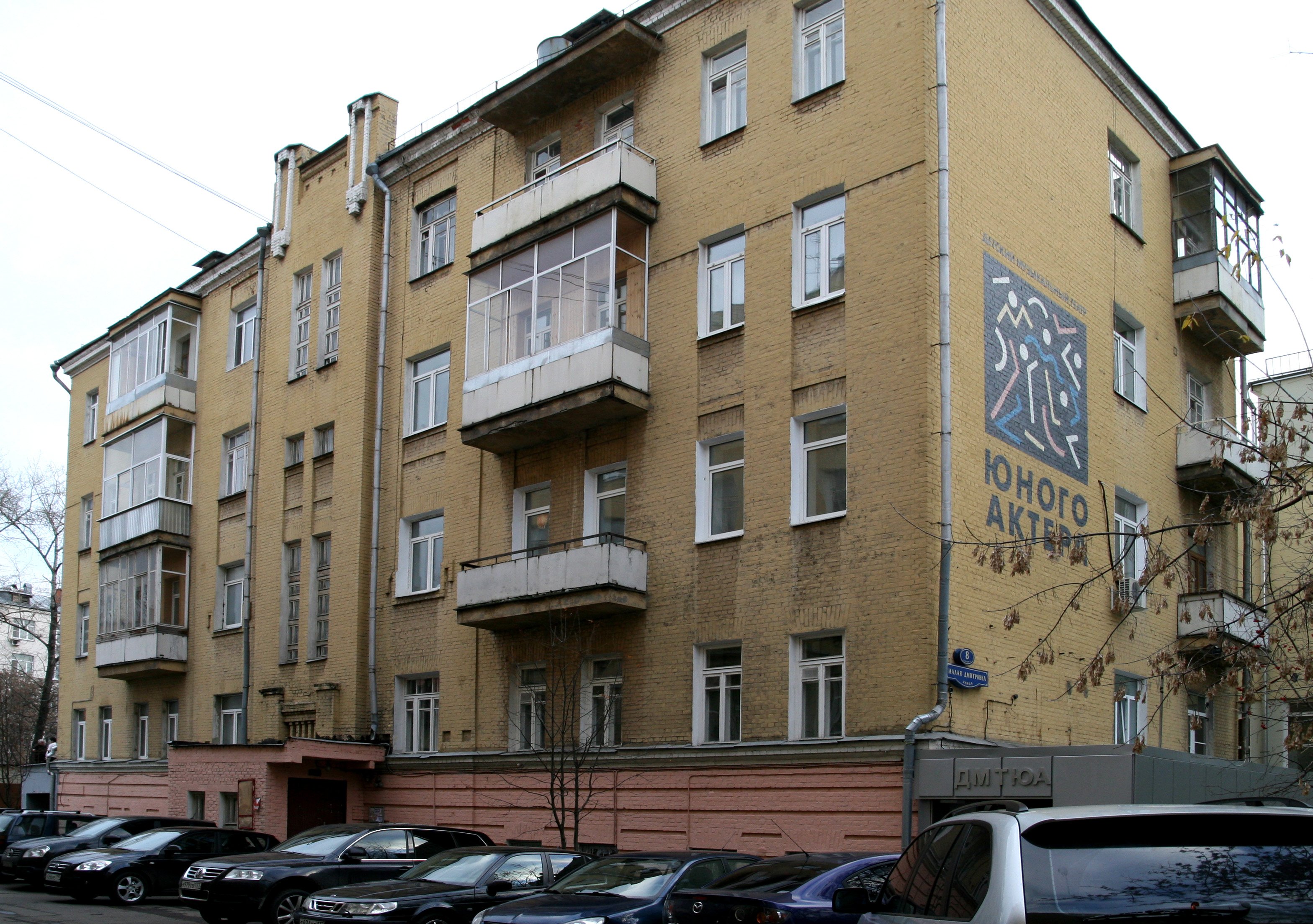 Moscow, Malaya Dmitrovka Street 8-4